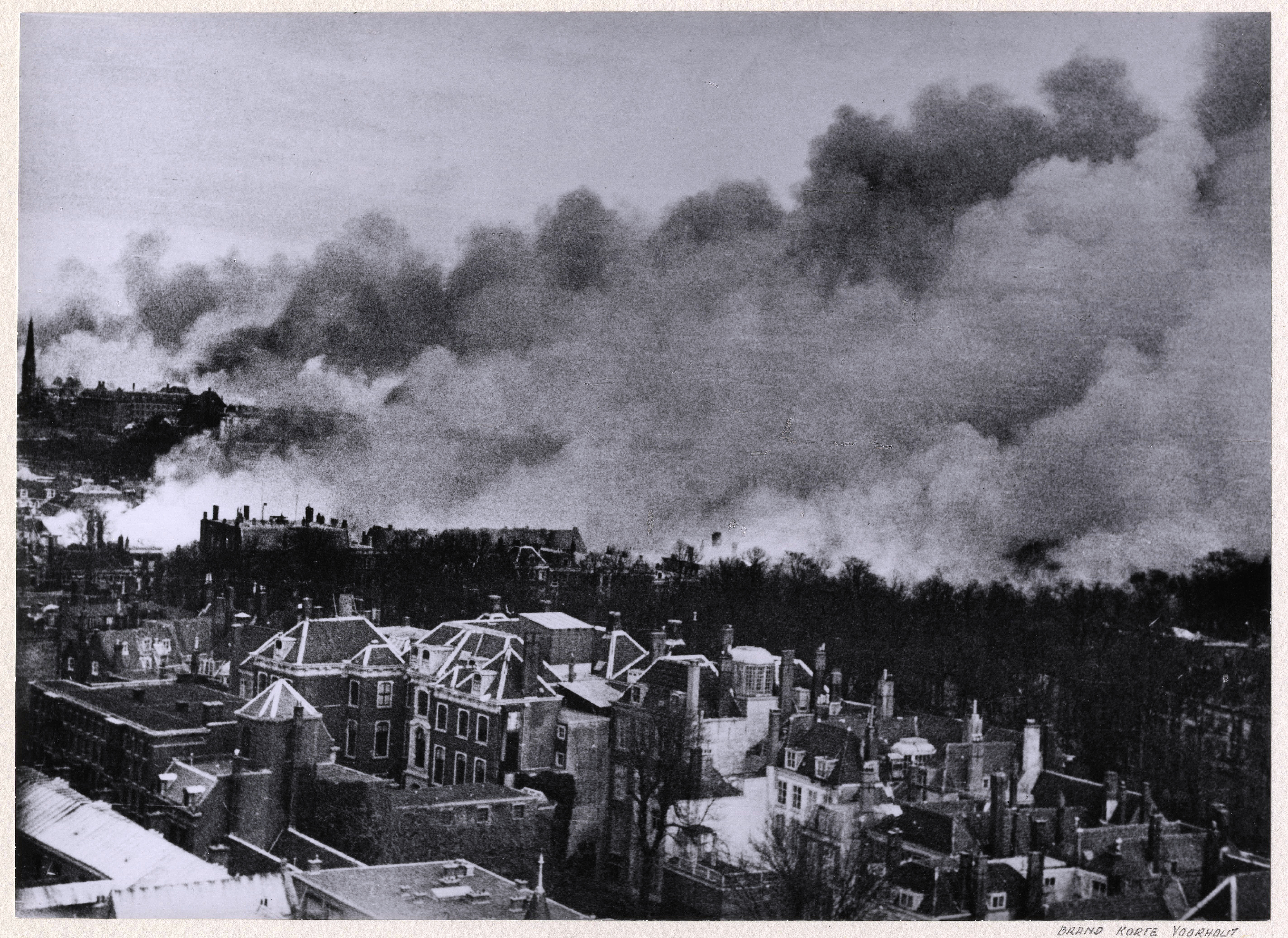 The bombing of the Bezuidenhout area on Saturday, March 3rd, 1945. Seen from the tower of the Church of St. James the Greater in Park Street (Dutch: Parkstraat)